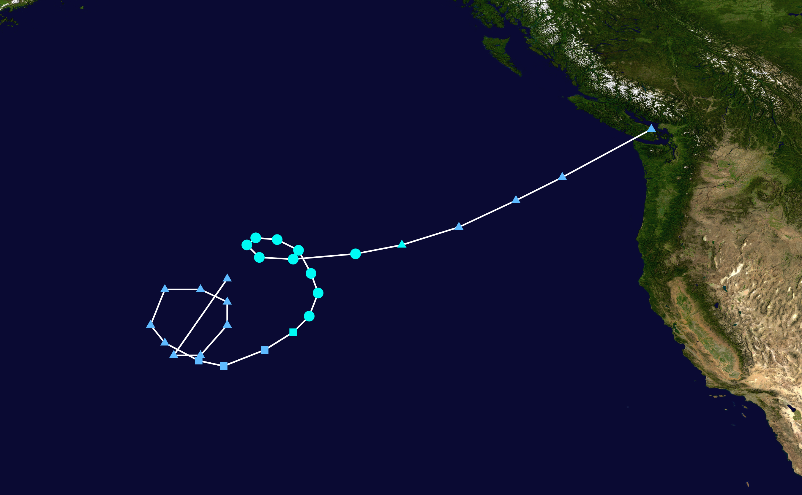 Track map of Invest 91C of the 2006 Pacific hurricane season. The points show the location of the storm at 6-hour intervals. The colour represents the storm's maximum sustained wind speeds as classified in the Saffir–Simpson scale (see below), and the shape of the data points represent the nature of the storm, according to the legend below. Saffir–Simpson scale Tropical depression≤38 mph≤62 km/h Category 3111–129 mph178–208 km/h Tropical storm39–73 mph63–118 km/h Category 4130–156 mph209–251 km/h Category 174–95 mph119–153 km/h Category 5≥157 mph≥252 km/h Category 296–110 mph154–177 km/h Unknown Storm typeTropical cycloneSubtropical cycloneExtratropical cyclone / Remnant low / Tropical disturbance